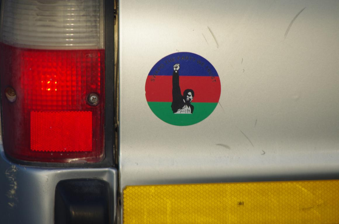 Typical sticker in SWAPO design as widespread icon on Namibian cars